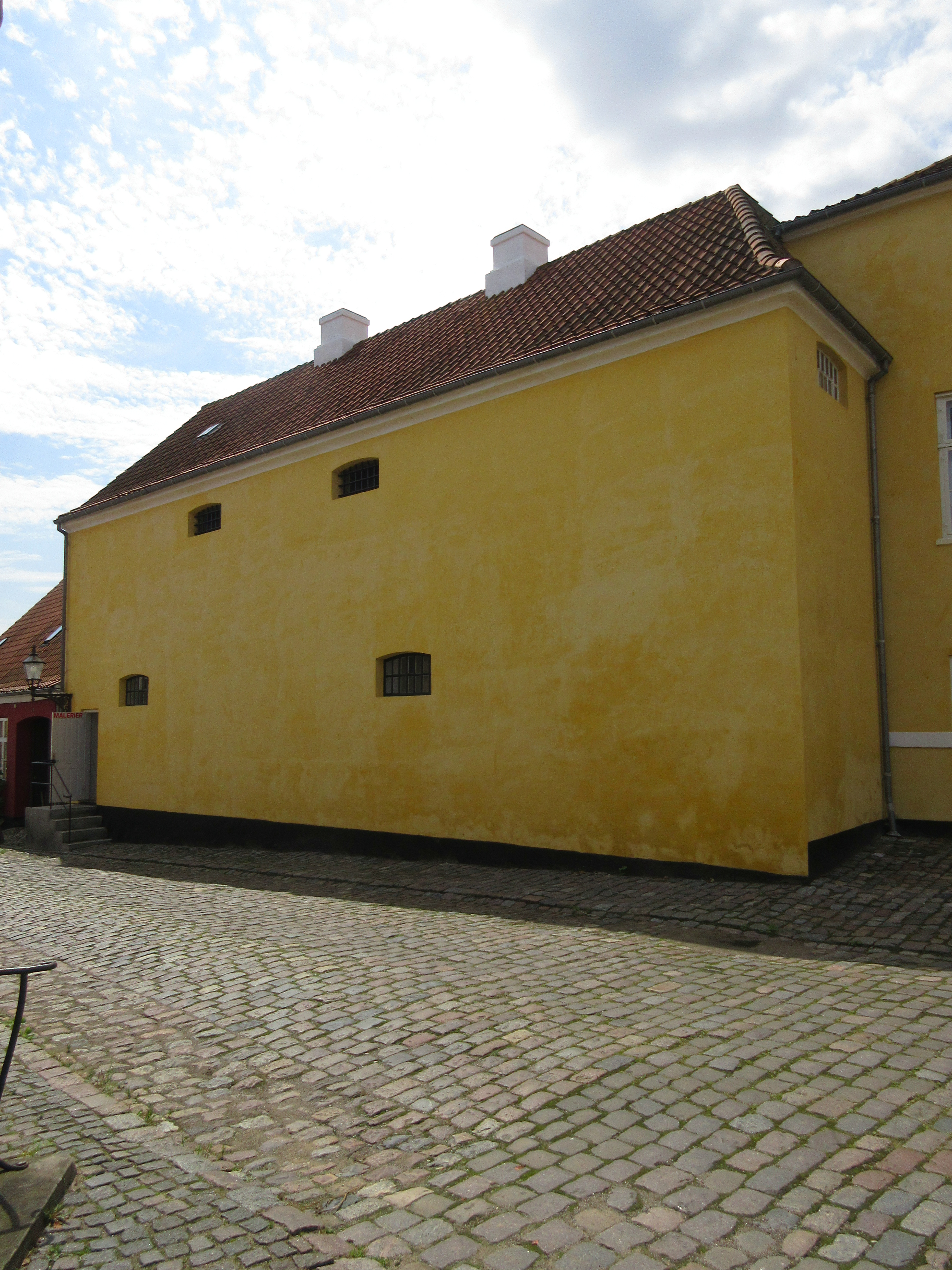 The former jailhouse of Præstø Town Hall in Præstø, Denmark